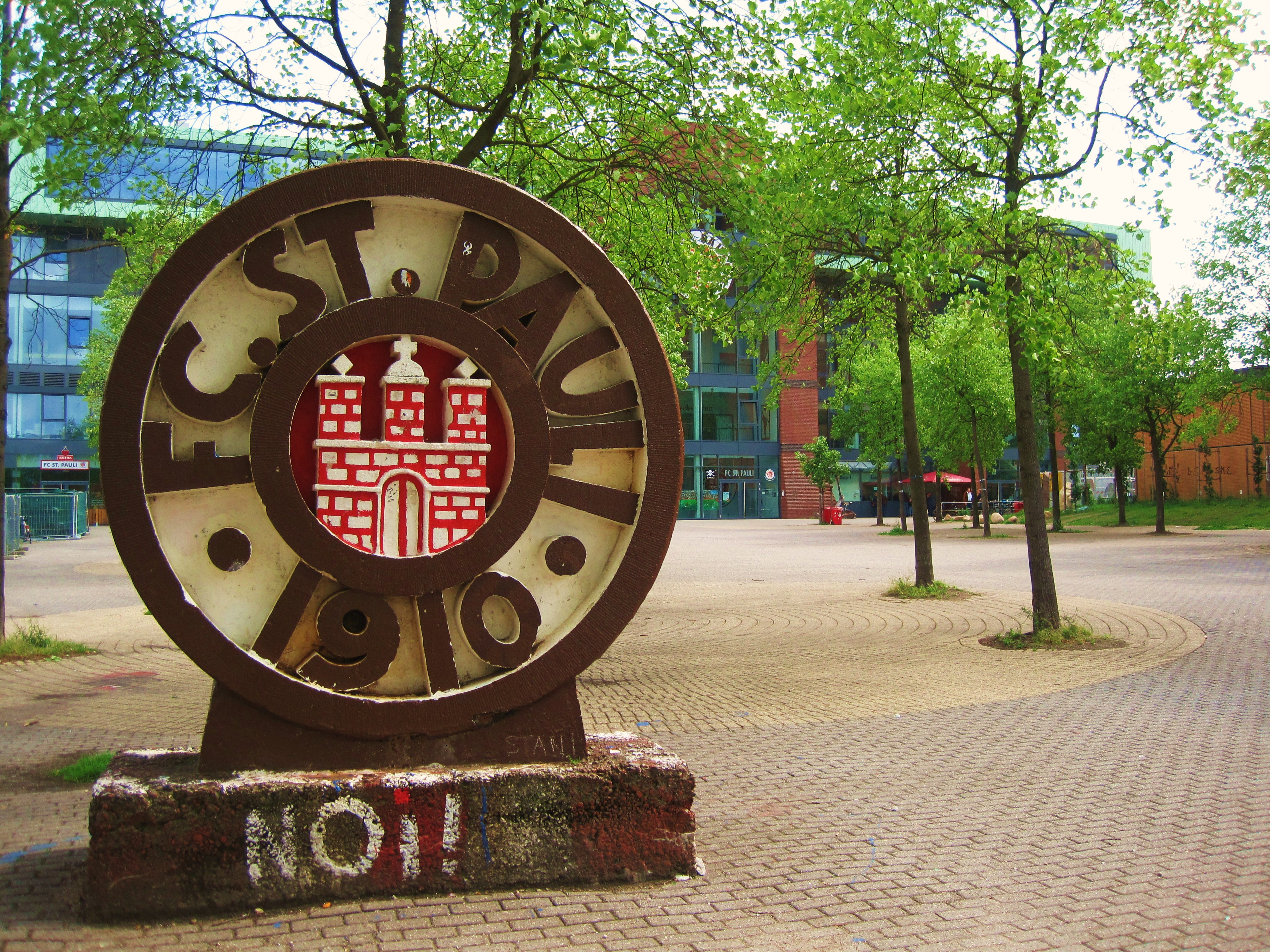 The Club logo of FC St Pauli in front of the Millerntor-Stadion, seen from Budapester Strasse.